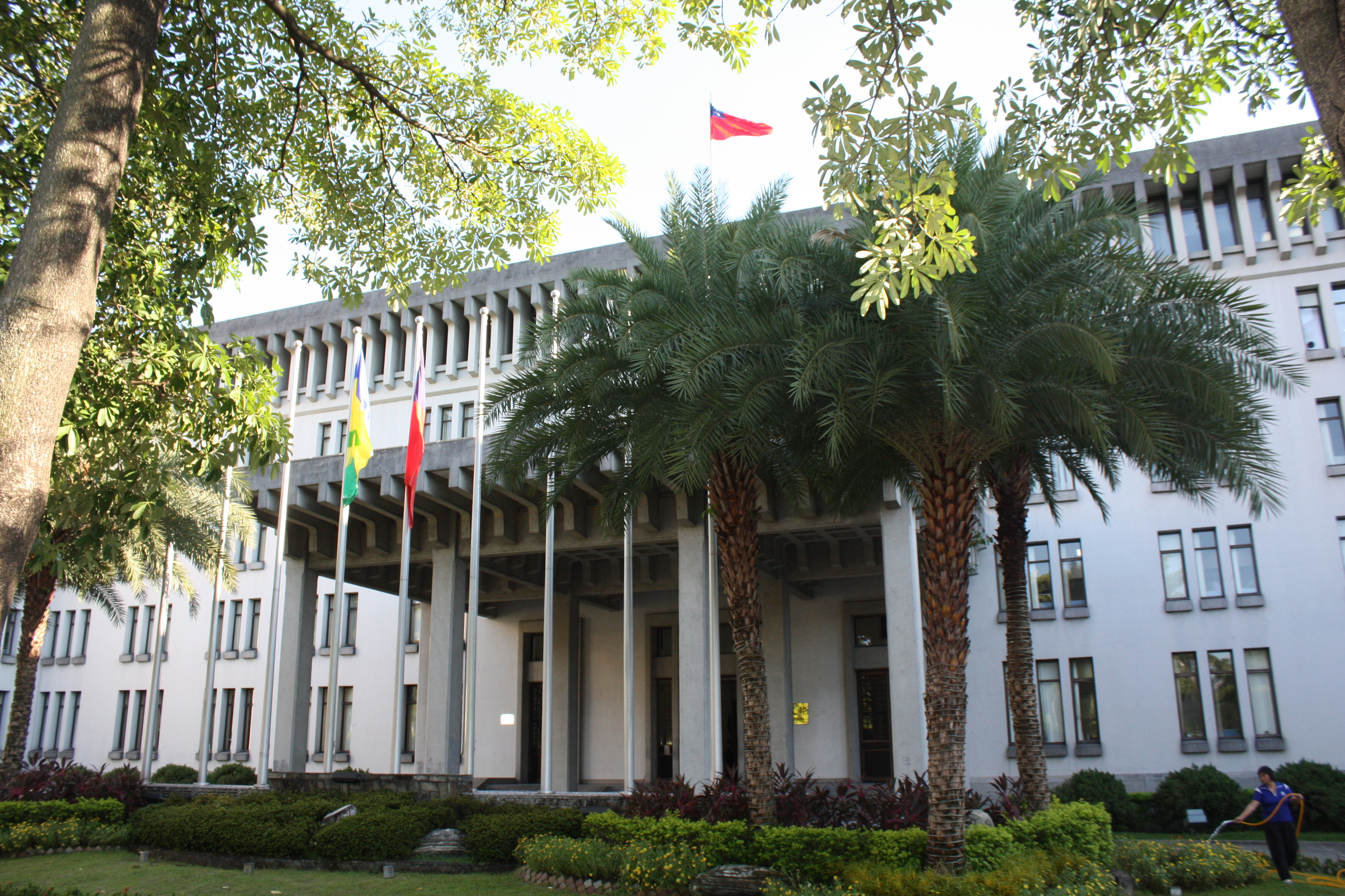 Ministry of Foreign Affairs building in Taipei City, Republic of China.